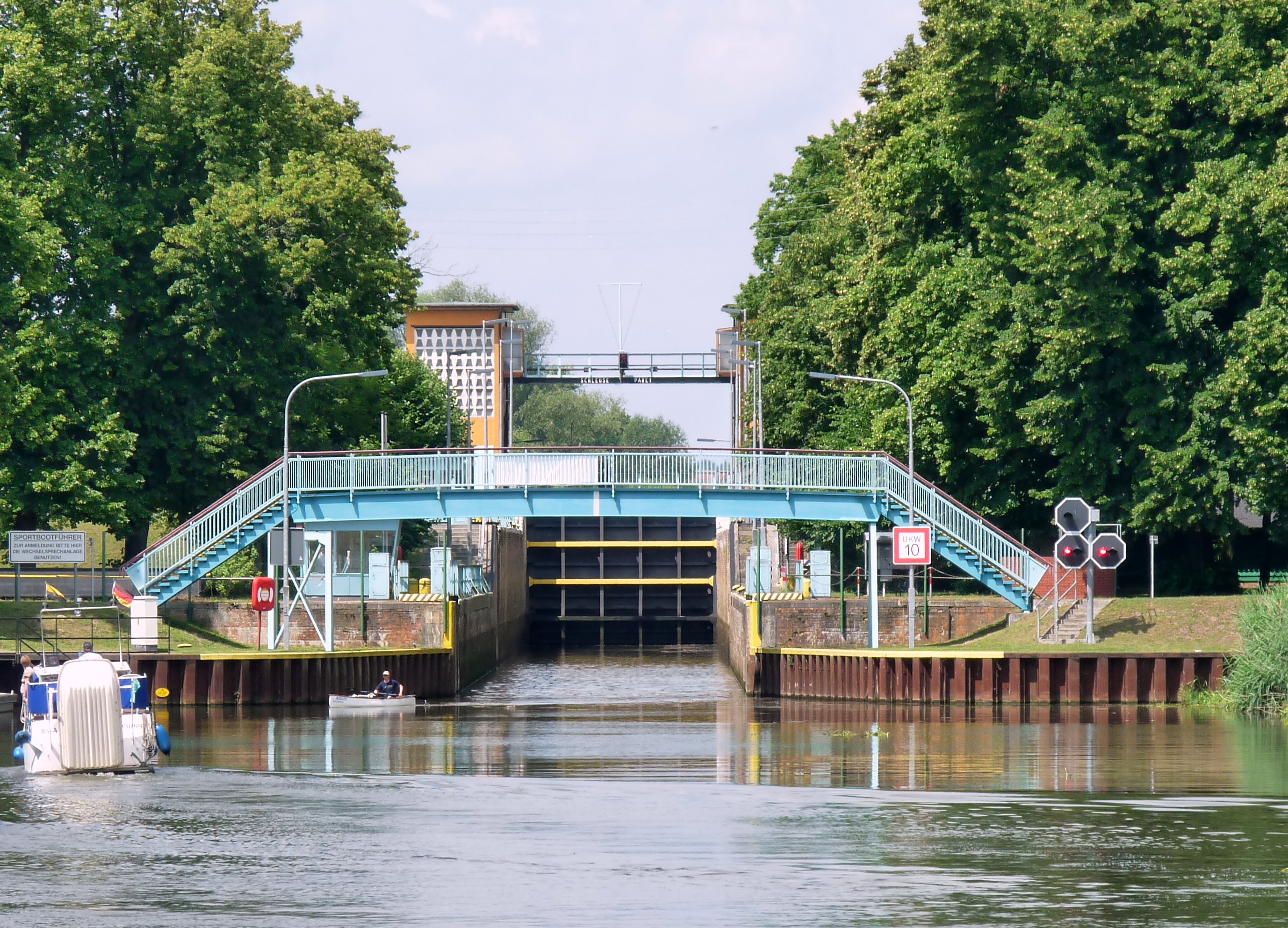 Canal lock Schleuse Parey